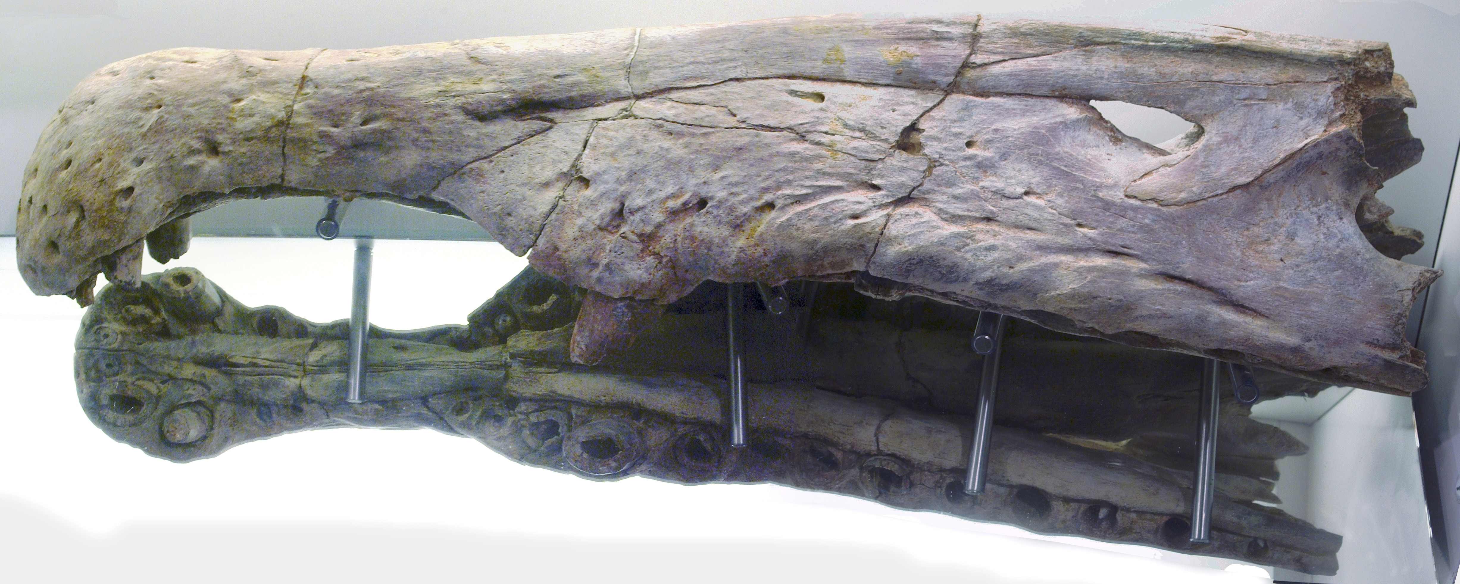 Skull of Spinosaurus